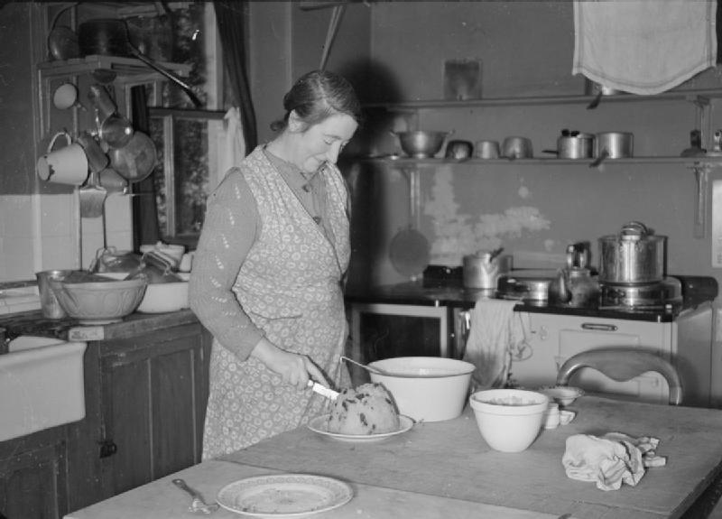 Evacuees To a Communal Hostel in Thurlestone, South Devon, England, 1941 Mrs E Stambrey was evacuated to Thurlestone from her home in Clapham in London. She soon got the job as cook at the Communal Billet for children evacuated from Bristol. Here we see Mrs Stambrey slicing up a spotted dick sponge pudding.